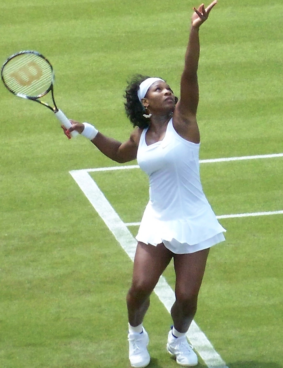 Serena Williams serves on Court 1 during her first round match against Kaia Kanepi of Estonia at Wimbledon 2008